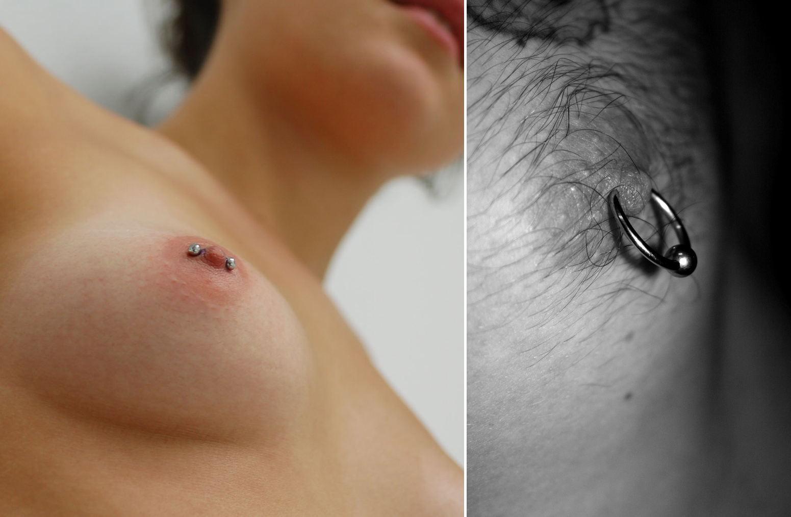 Nipple piercing in women and men